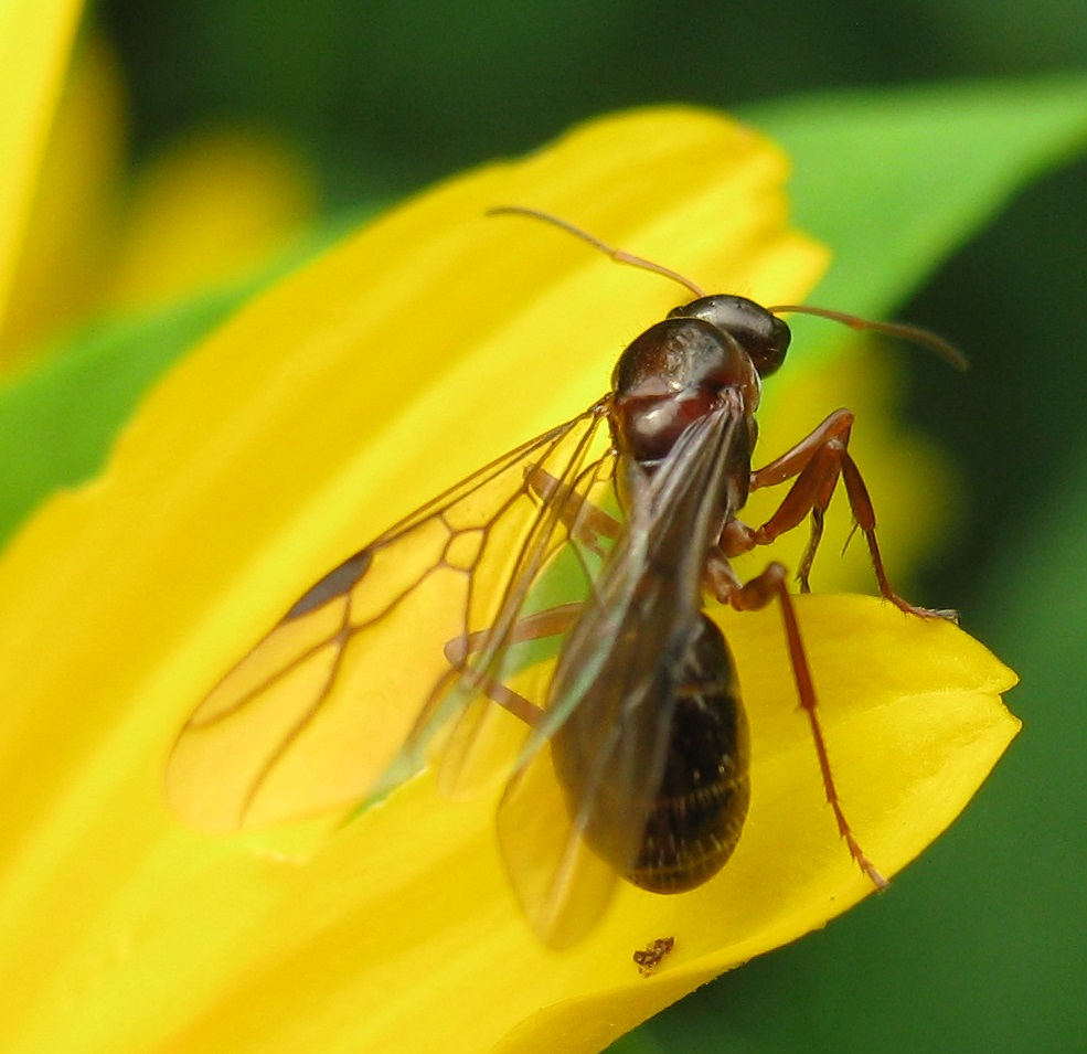 Alate ant, Formica neogagates. Pennypack Ecological Restoration Trust, Montgomery County, Pennsylvania, USA.